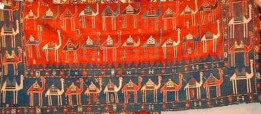 Azerbaijanian "Shadda" carpet attributed to Karabagh, more specifically to Lombaran in the Barda district, to the East of Nagorny Karabagh.